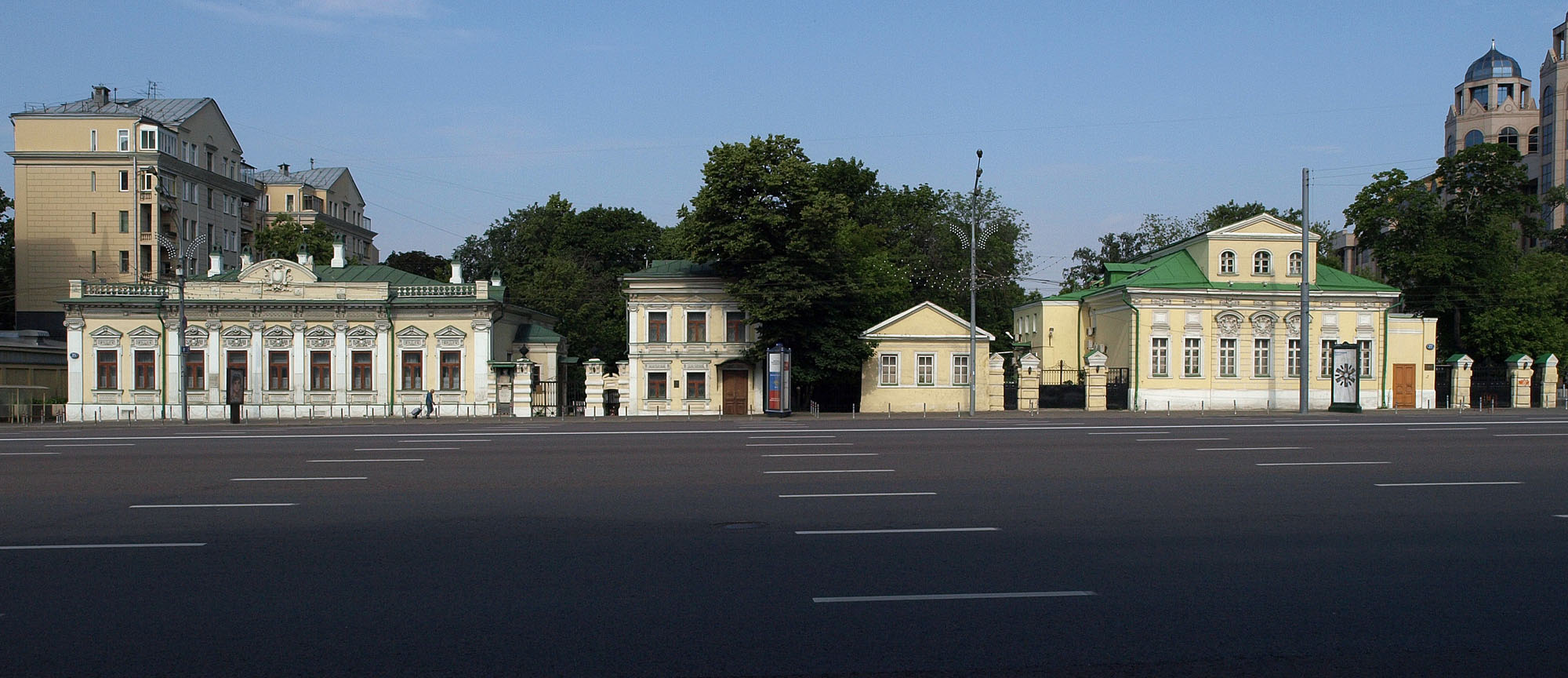 Garden Ring without cars - unusually quiet due to 4-day June holidays. Novinsky Boulevard, view of Fyodor Chalyapin House. The park behing these small houses hides Narkomfin building. This is a typical example of how the 'cleaner' western areas of Garden Ring looked 150 years ago - except that the gardens are gone.